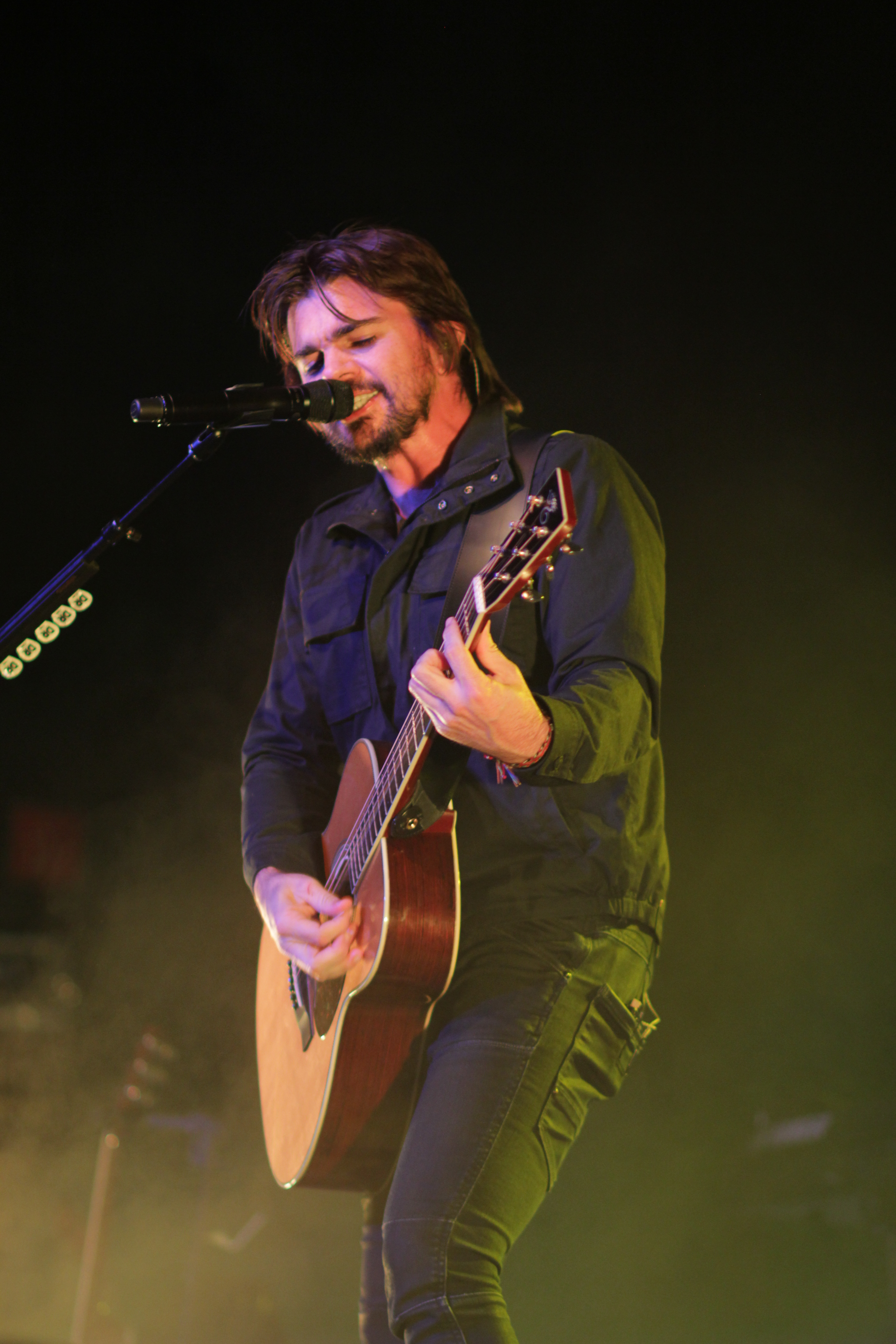 Juanes Unplugged Tour 2012